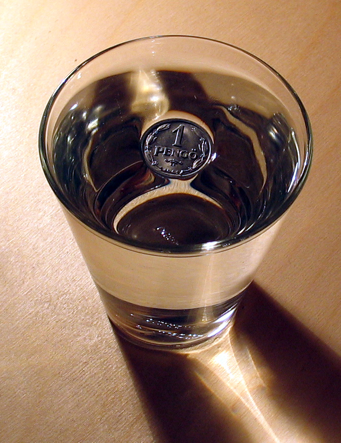 A 1 Hungarian pengő coin, which is made of aluminium, floating on the water thus demonstrating its surface tension.